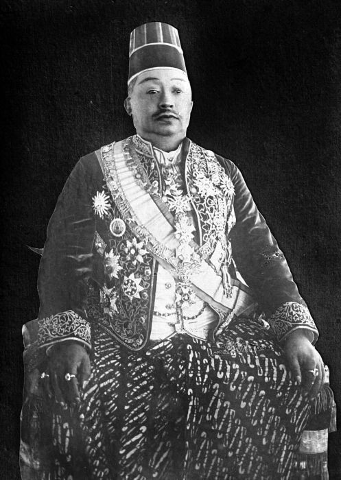 Megative. Portrait of Pakubuwono X, the susuhunan of Surakarta